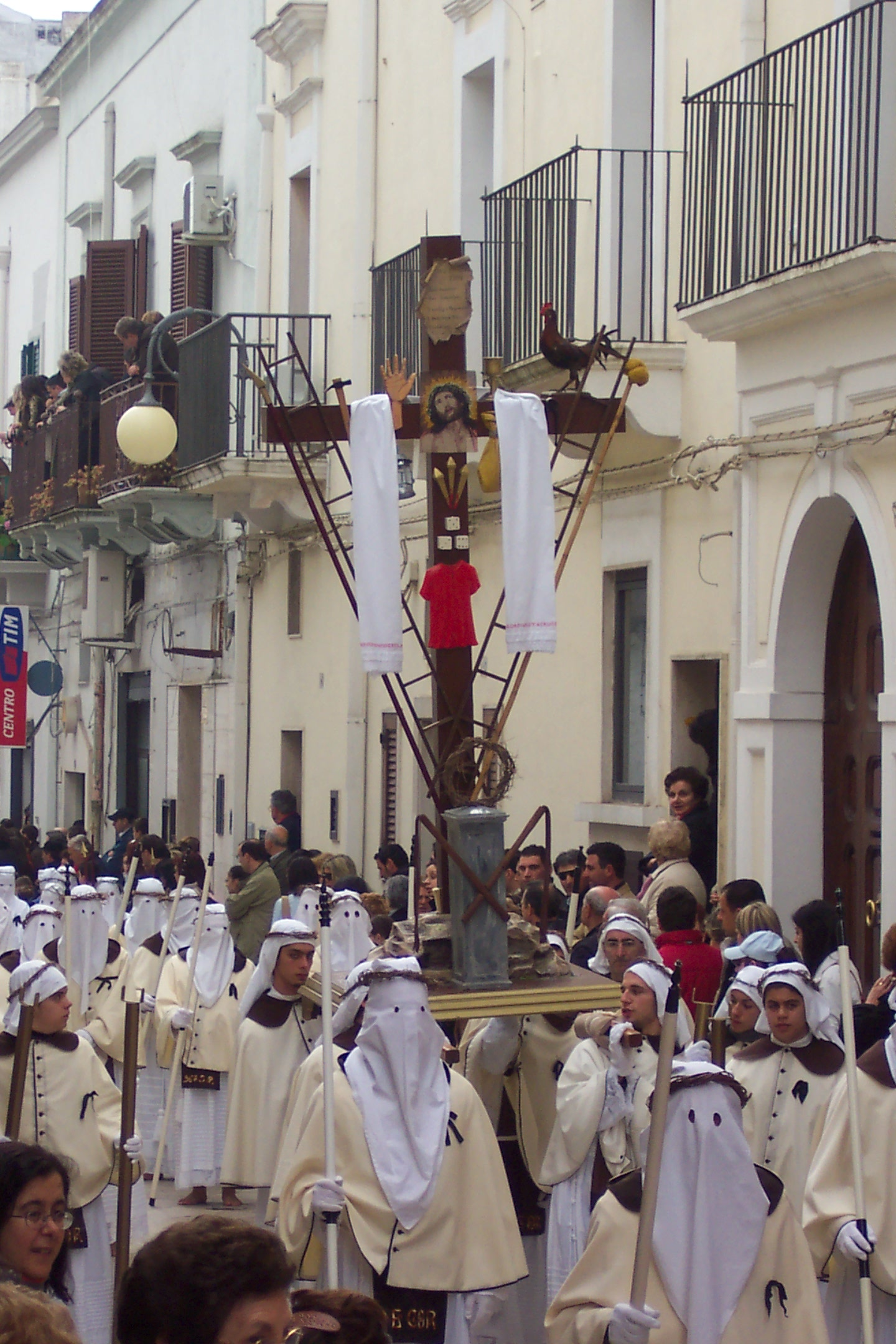 Confraternita del Carmine di Mottola-il Calvario